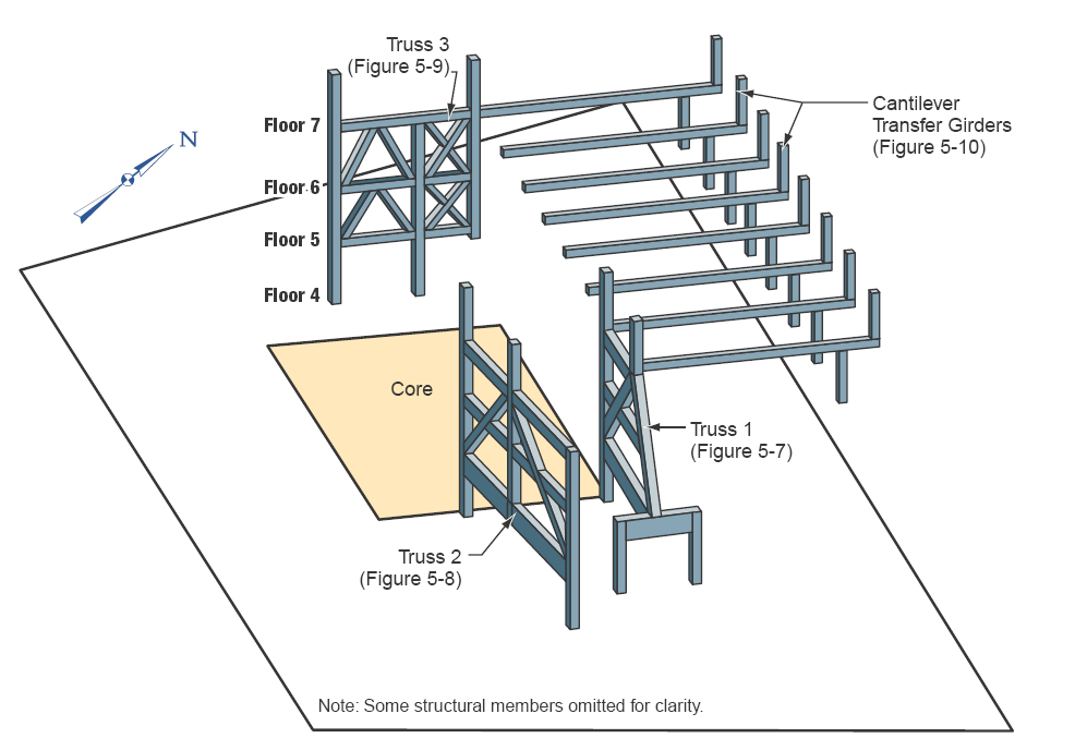 7 World Trade Center - transfer trusses